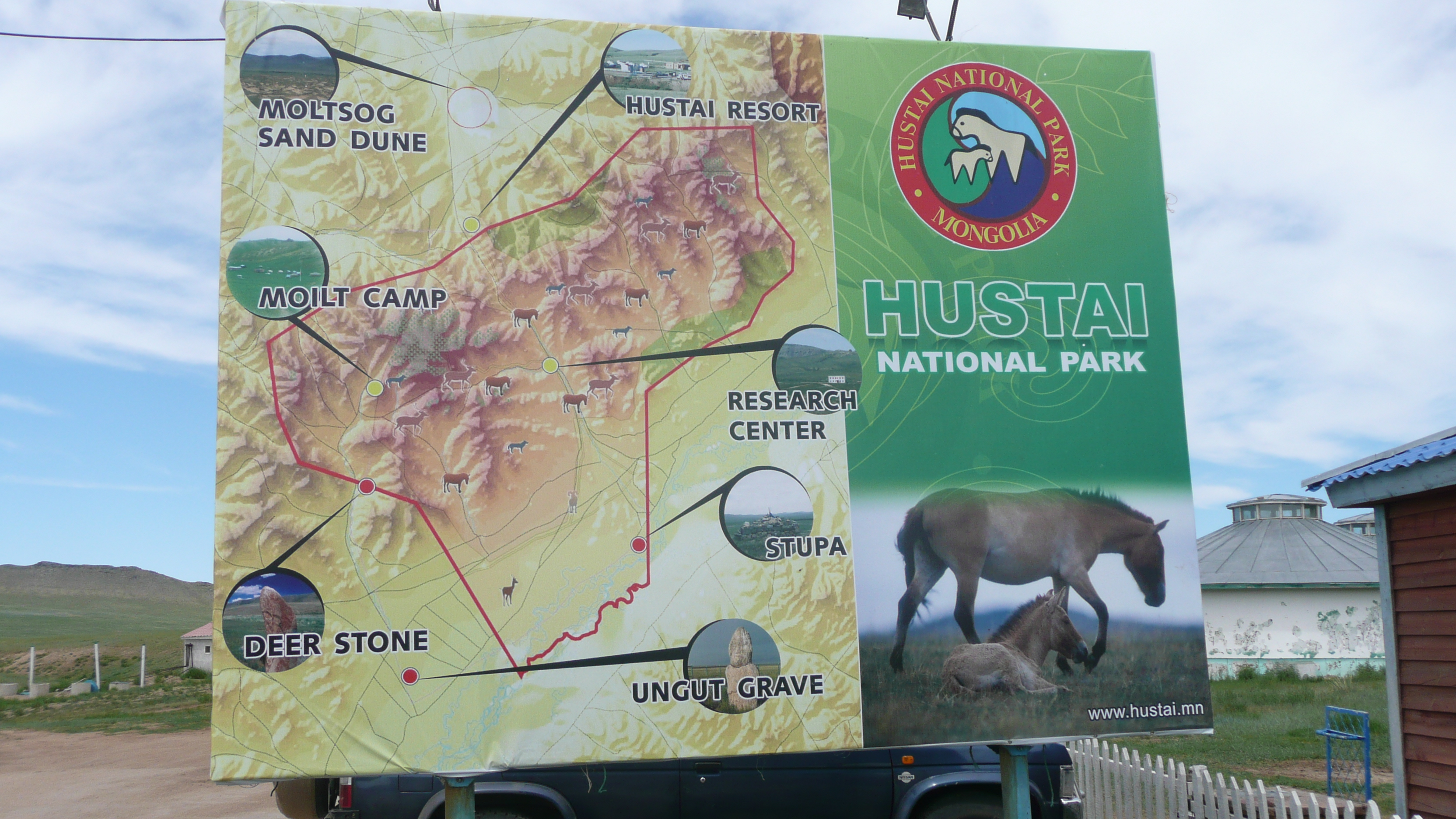 Map of the main part of the Hustai National Park (Mongolia)